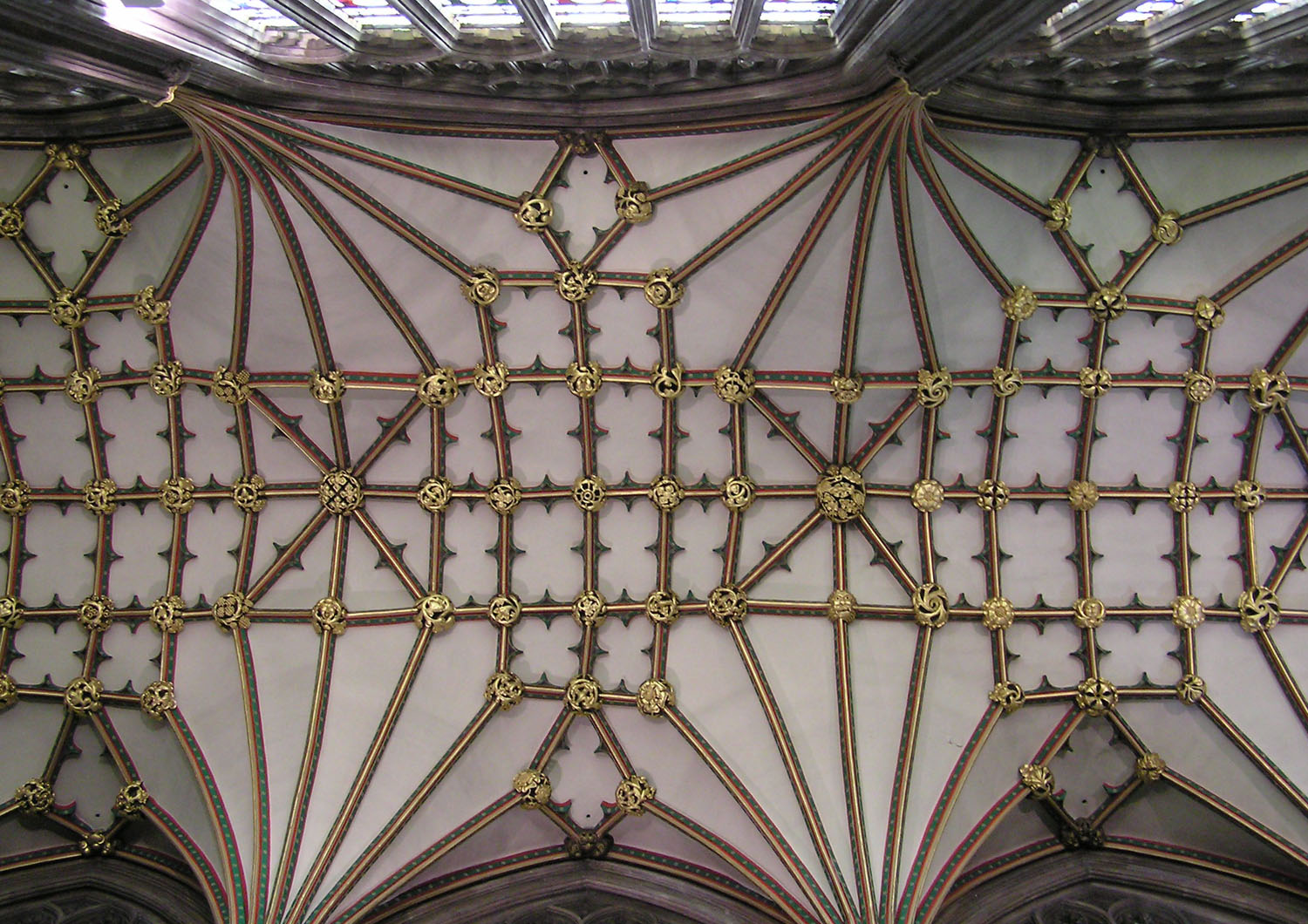 Nave vault with bosses in the parish church of St Mary, Redcliffe, Bristol, England